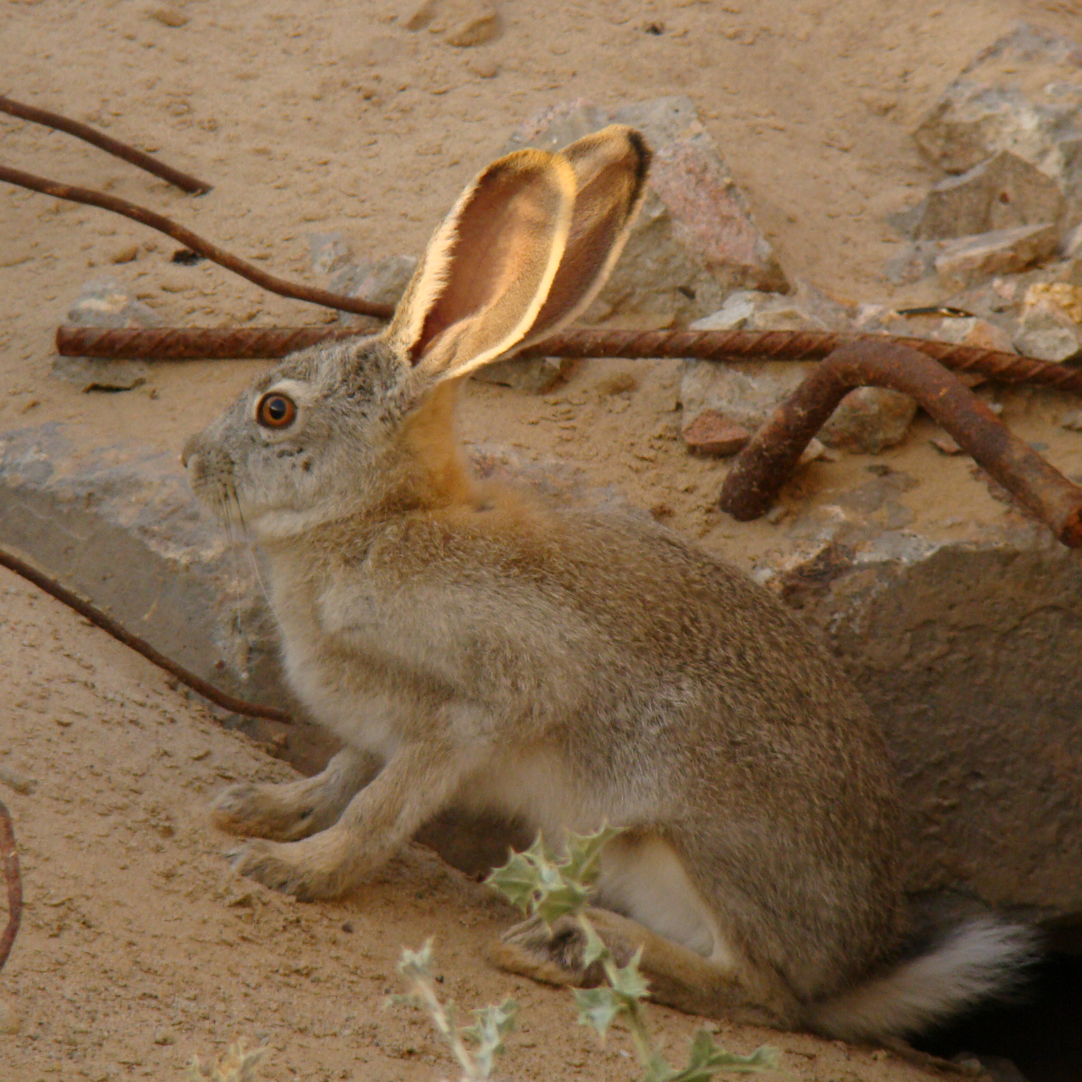 Young Tolai Hare (Lepus tolai). City of Baikonur, Kazakhstan.